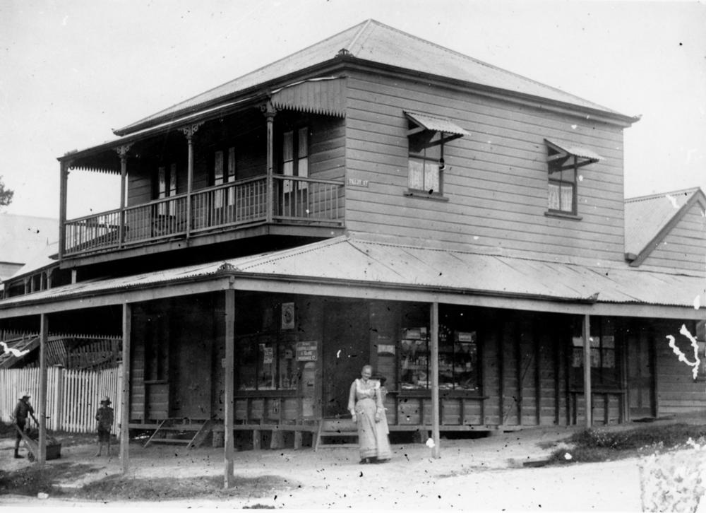 Grandmother Martin's shop at Dutton Park, Brisbane, ca. 1900. Shop of Janet Martin (nee Gray) on the corner of Annerley Road and Tillot Street. (Description supplied with photograph). The suburb of Dutton Park was originally known as Bloggo, which became corrupted to Boggo and thus gave the name to Boggo Road (now known as Annerley Road). The area was eventually renamed Dutton Park after Charles Boydell Dutton who was the Queensland Minister for Lands from 1883 to 1887. Originally the district was not popular with settlers because of early plans for the construction of the South Brisbane Cemetery and gaol. However the area eventually found favour due to its proximity to the city and the development of public transport. The South Coast Railway was built through the district and a station was opened at Dutton Park in 1884. Land was initially bought for farming, however residential development soon followed after the introduction of the tramline in 1908. (Information taken from: Queensland Place Names Board: Brisbane Suburbs and Localities, and Brisbites Suburban Sites, retrieved on 13 September 2004 at ).